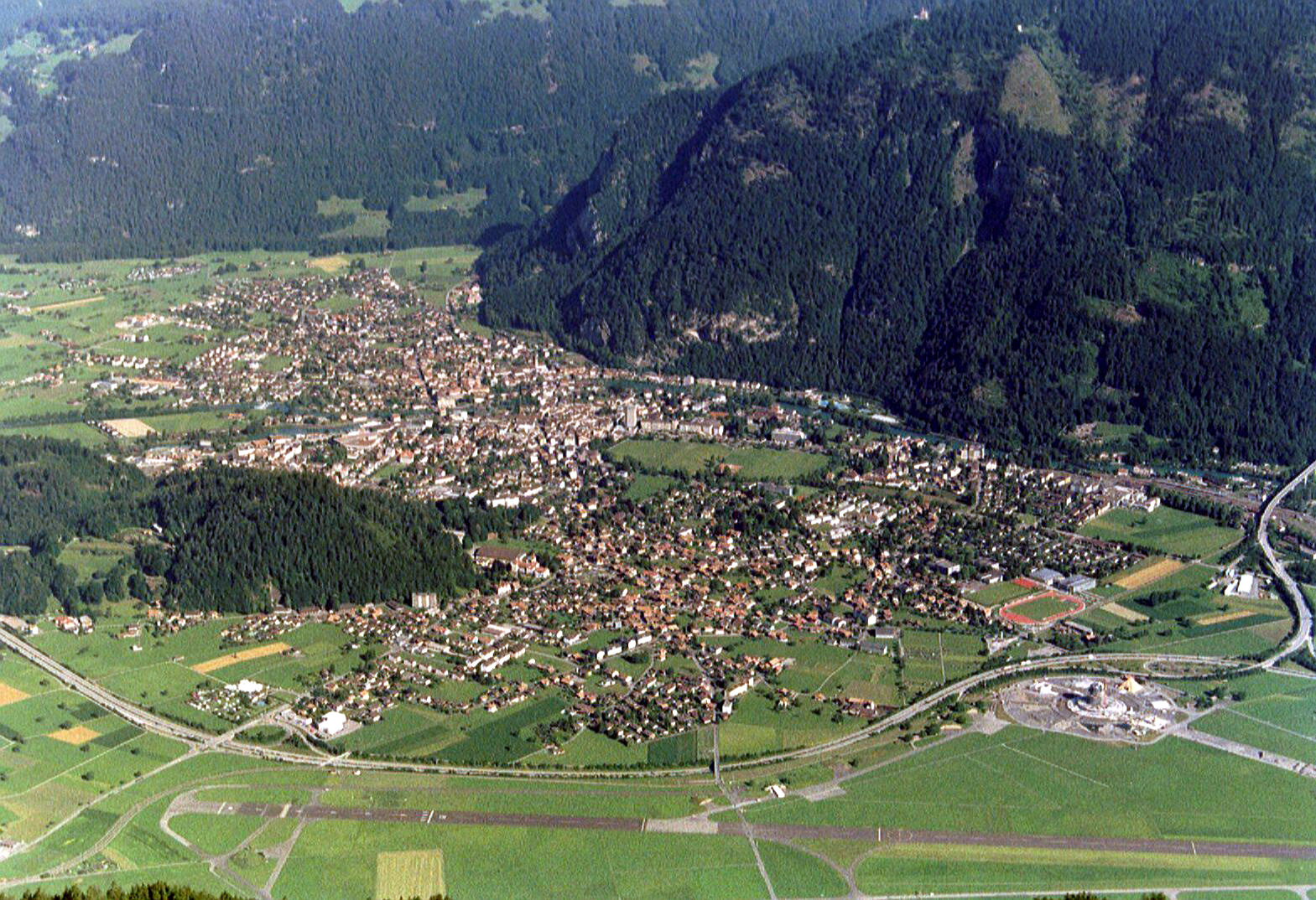 Interlaken, Switzerland, as seen from above.